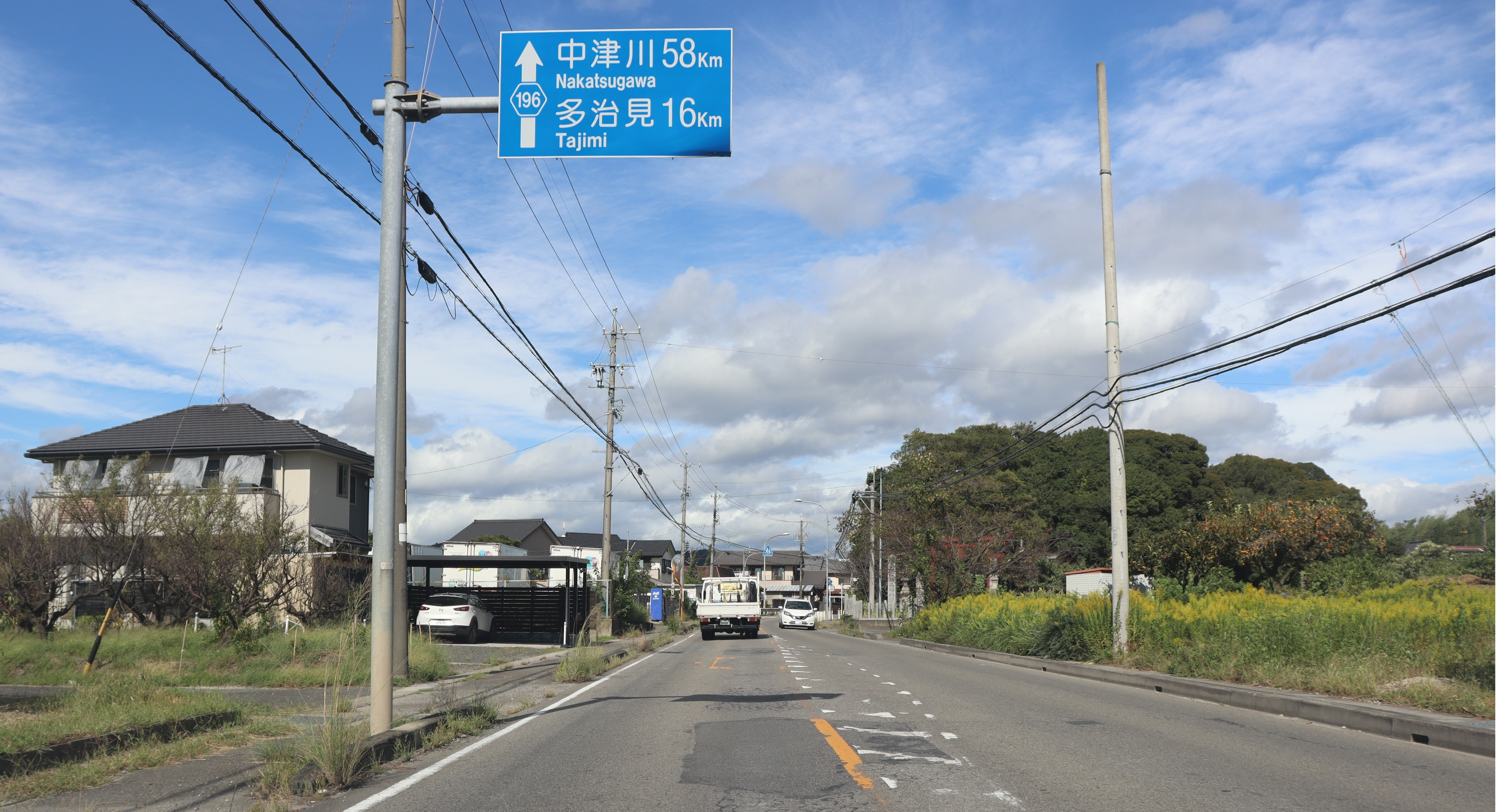 Aichi Prefectural Road Route 196 in Okusa, Komaki, Aichi Prefecture, Japan.